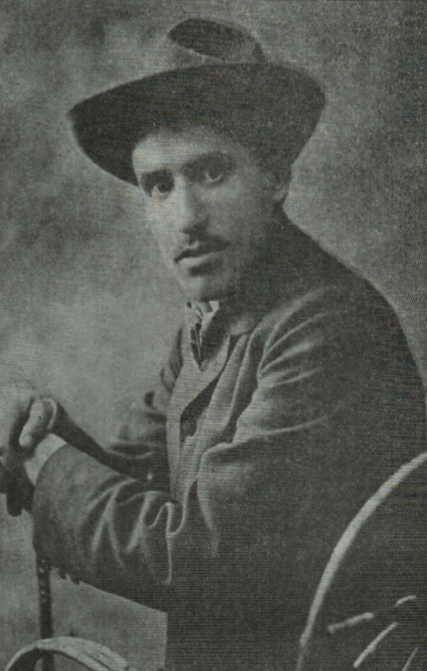 Portrait - Stamen Panchev